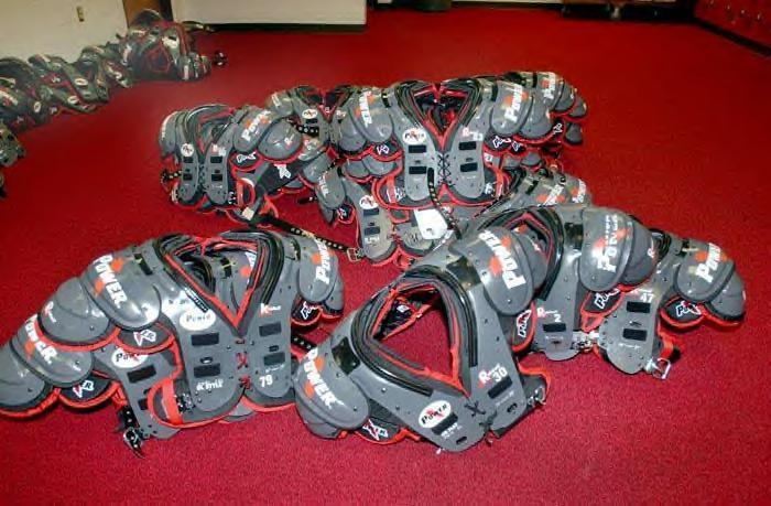 My photo, date unrecalled. Article: Shoulder Pads.